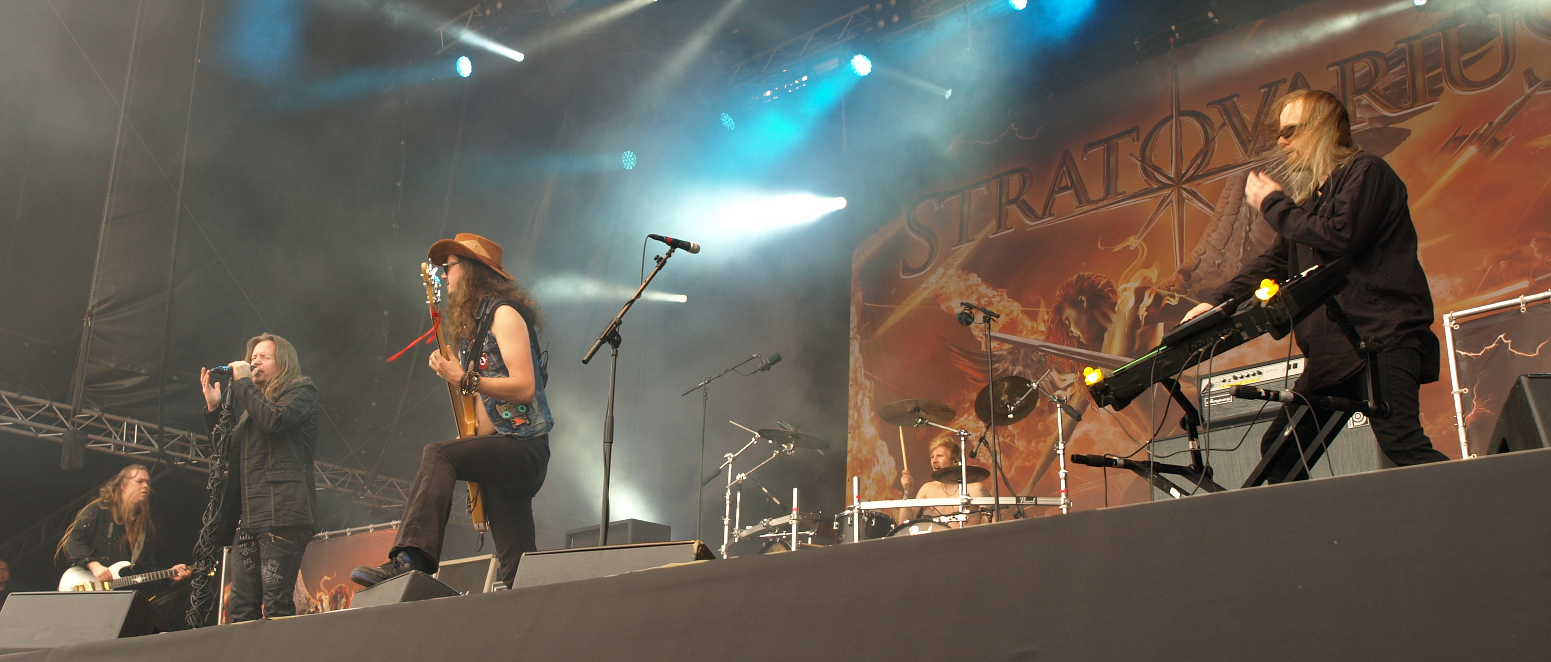 Finnish band Stratovarius at Tuska Open Air 2013